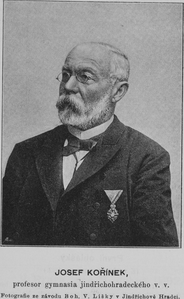 Portrait of Josef Kořínek (1829 - 1892), a high-school professor of philology and author of works on Czech literature.